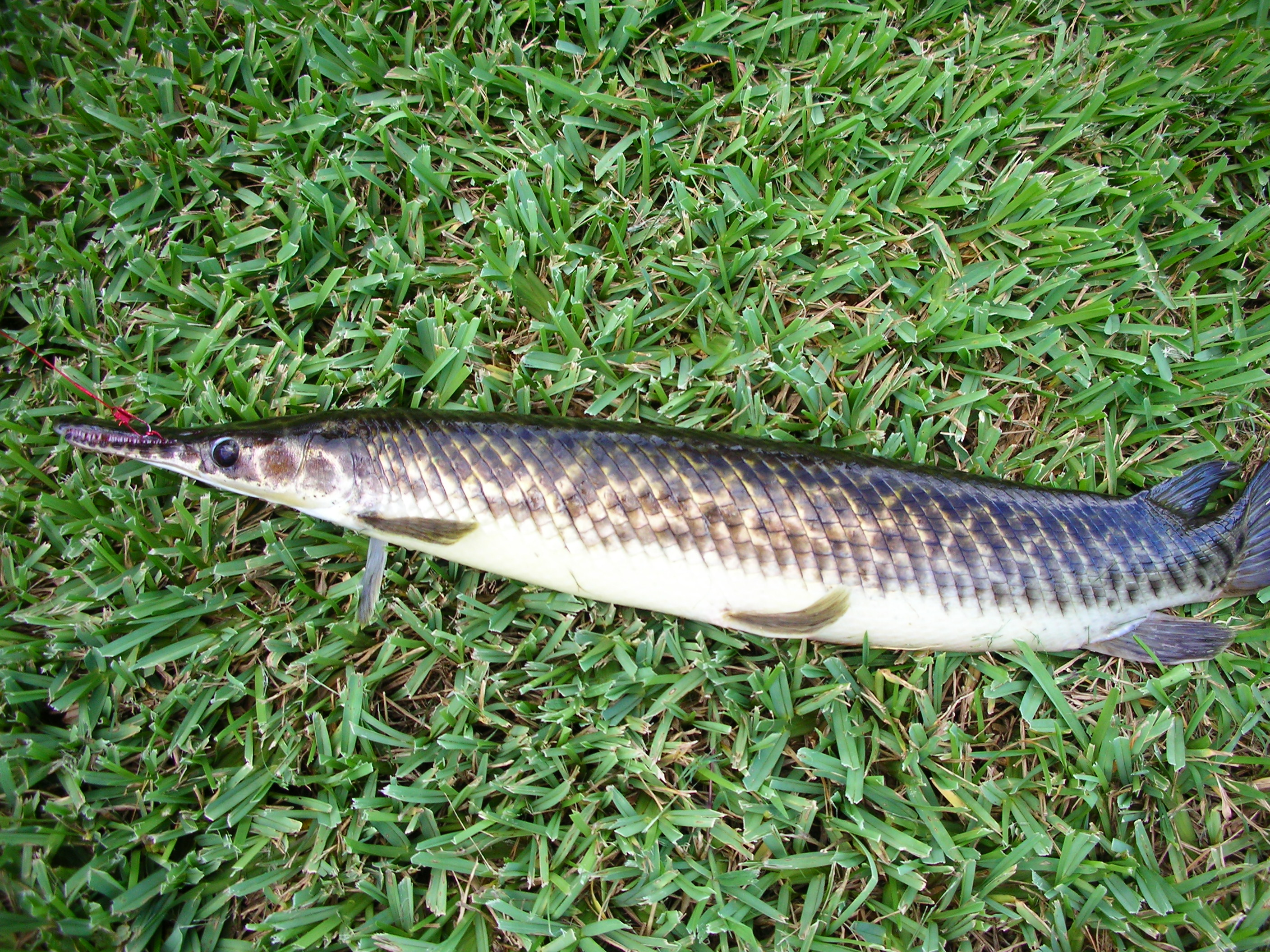 This was caught in the lake behind my grandmother's house in Naples, Florida.